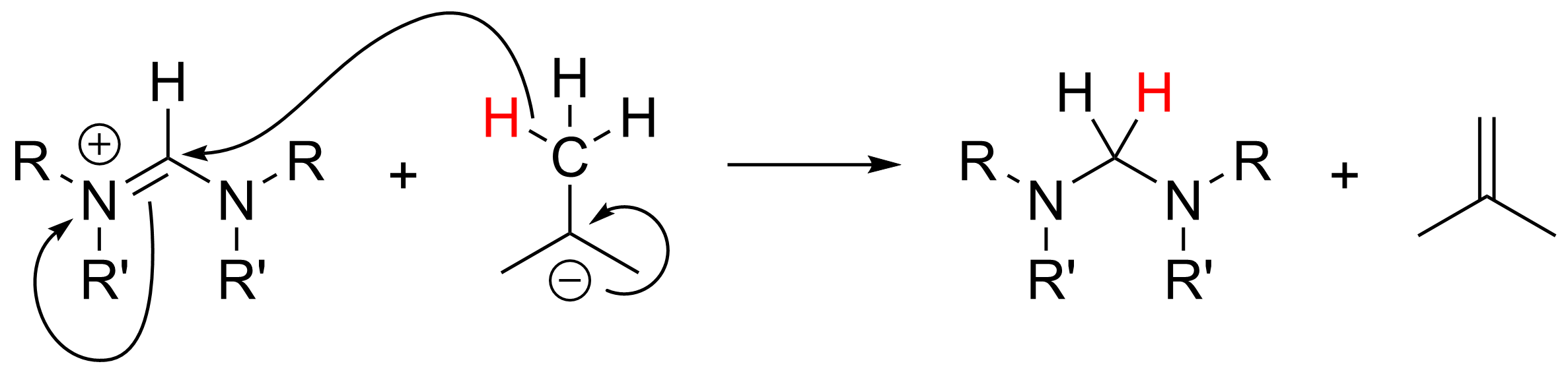 Basebuty llithium